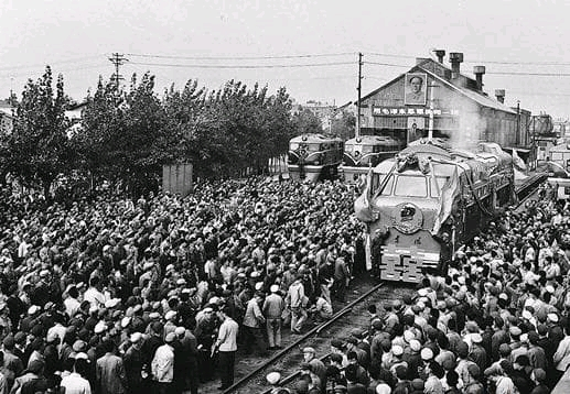 China Railways DF4 2001 diesel locomotive rolling out from Dalian Locomotive Work on 26th September 1969